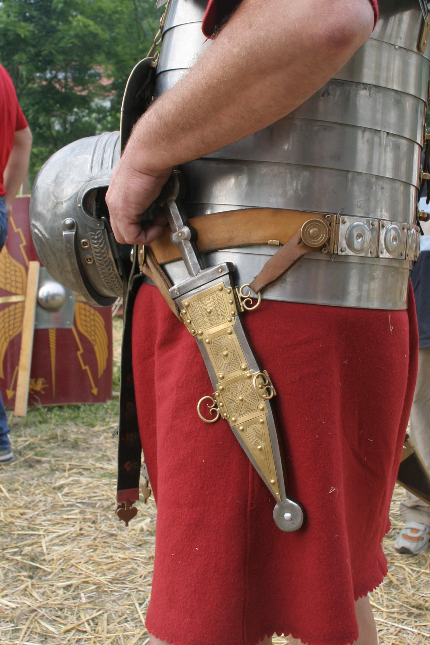 Pugio from 70 a.C Photographed by myself during a show of Legio XV from Pram, Austria